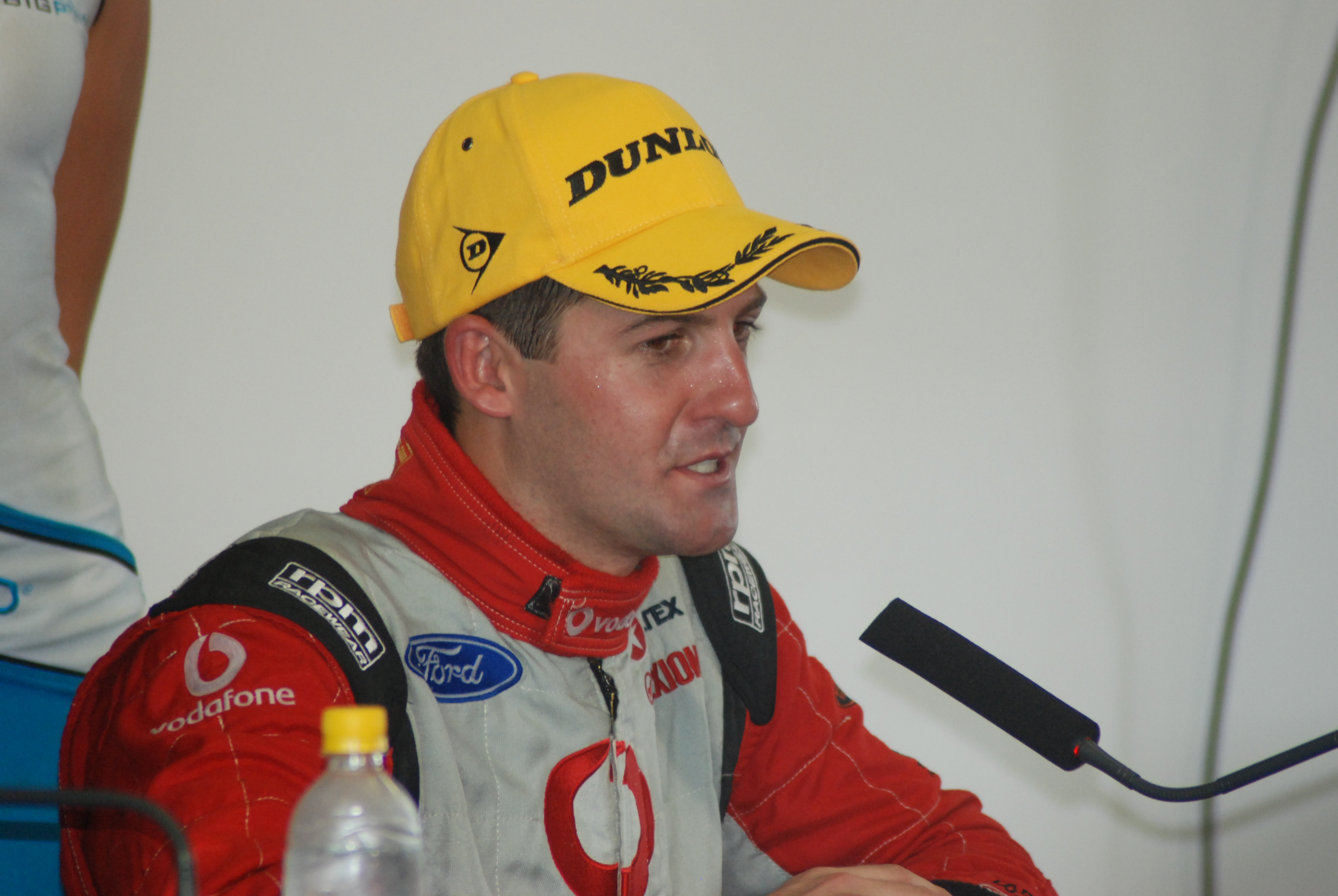 Jamie Whincup at a press conference. Phillip Island round of the V8 Supercars.